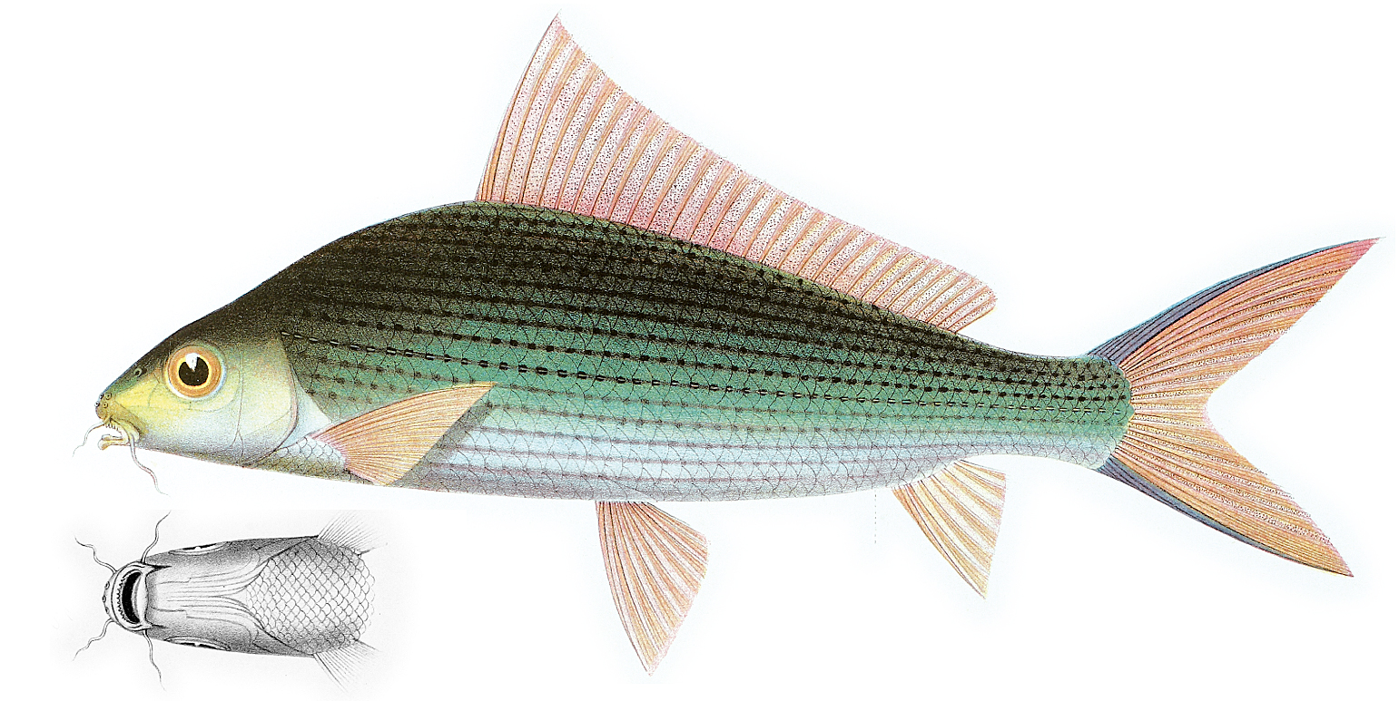 Labiobarbus fasciatus, identified in the original publication as Dangila fasciata